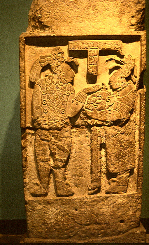 Maya site of Yaxchilan (Mexico). Lintel 26 from Temple 23: Lady K'abal Xook hands her husband, king Itzamnaaj Balam III, a jaguar helmet. National Museum of Anthropology (Mexico-city)